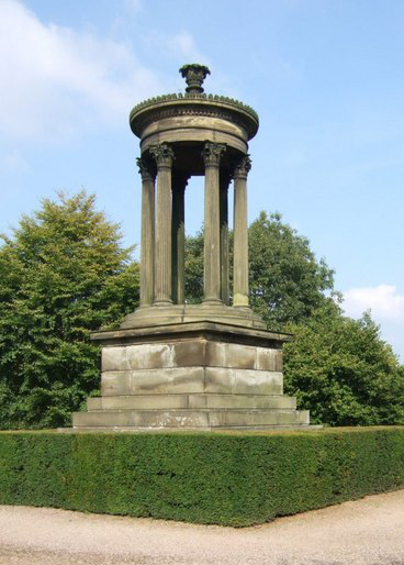 The "Temple"